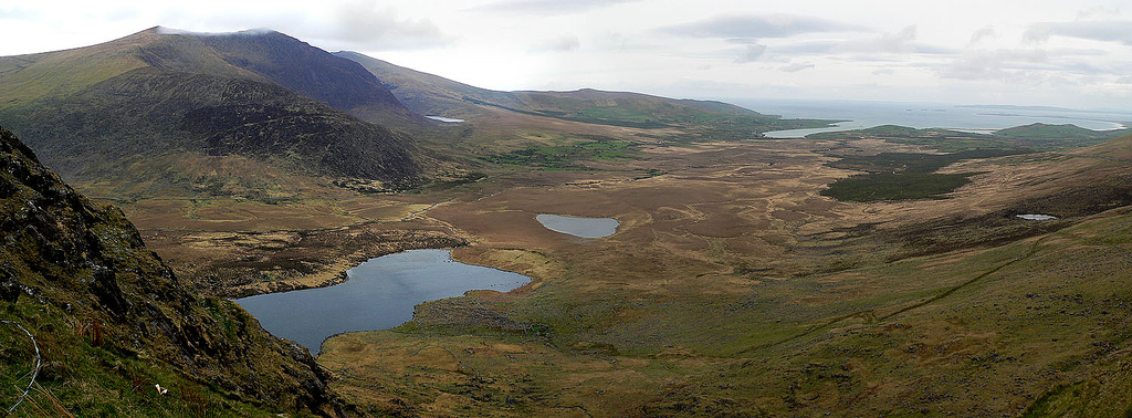 Connor pass. Dingle peninsula. Mejor en grande/Best viewed large Mapa / map: Google Earth / SatelliteP1030533